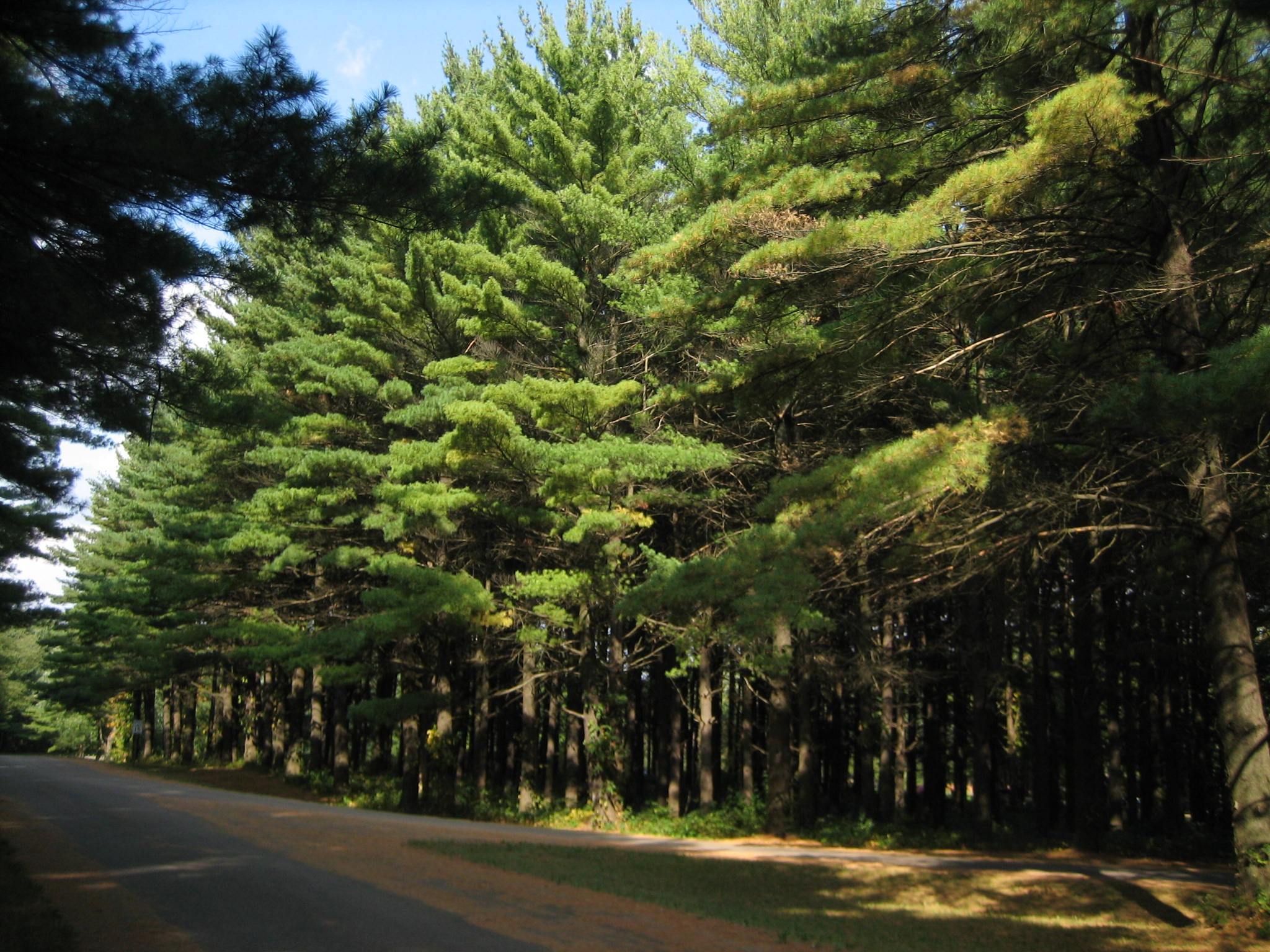 White Pines Forest State Park, near Polo, Oregon and Byron, Illinois. A portion of the southernmost native White Pine stand in Illinois.